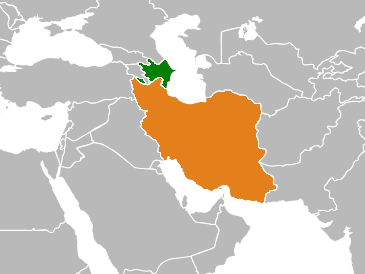 Map highlighting relative positions of Azerbaijan and Iran.